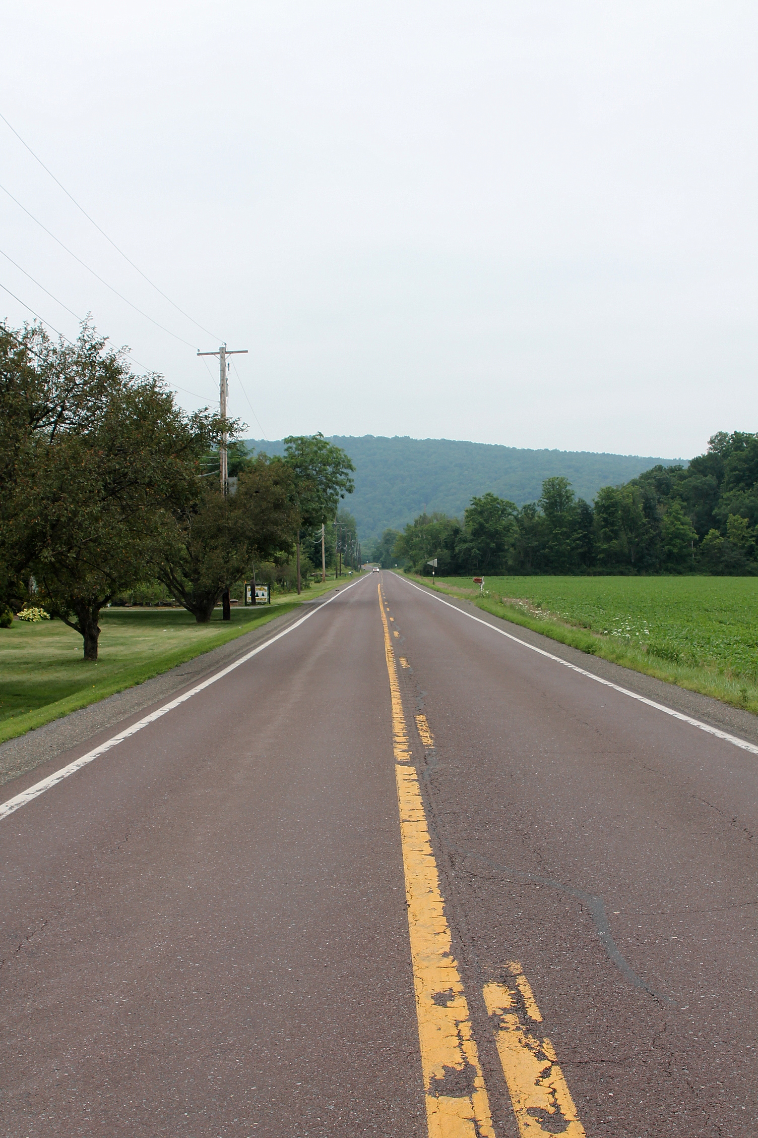 Pennsylvania Route 642 looking north in Montour County